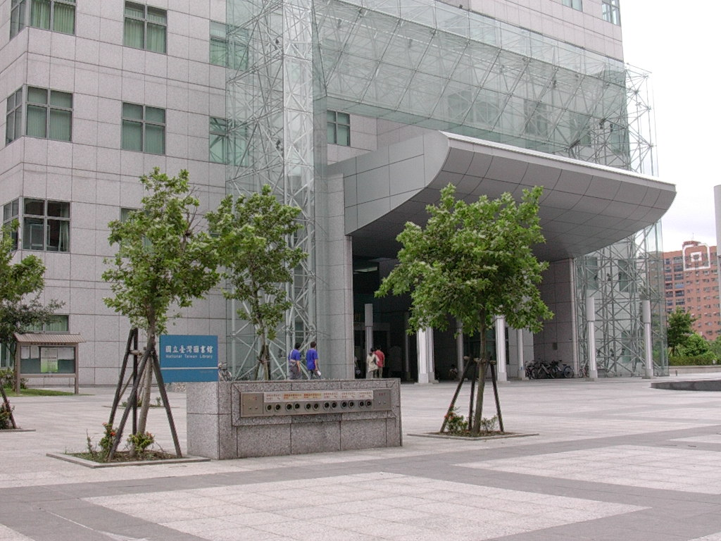 National Taiwan Library entrance.中文（台灣）: 國立臺灣圖書館大門。